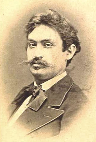 The Austro-Hungarian craftsman Sándor Járay the elder (1845–1916), who is not be confused with his nephew Sándor Járay the younger (1870–1943).